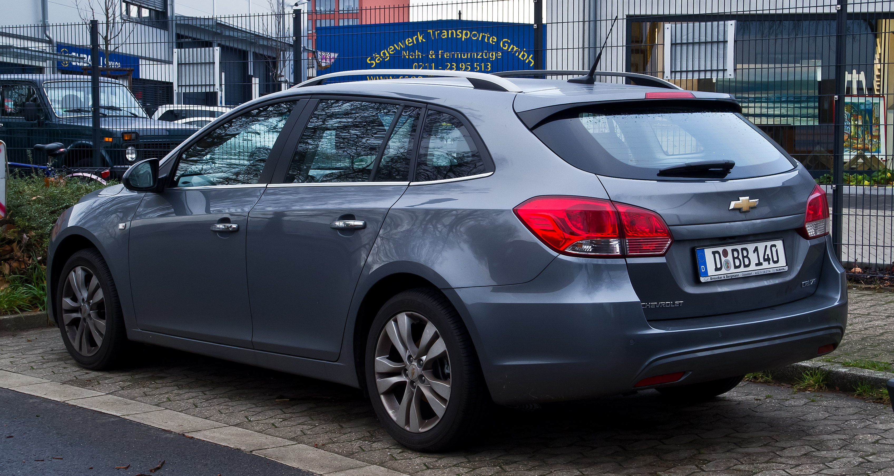 Chevrolet Cruze Station Wagon LTZ+ (Facelift)